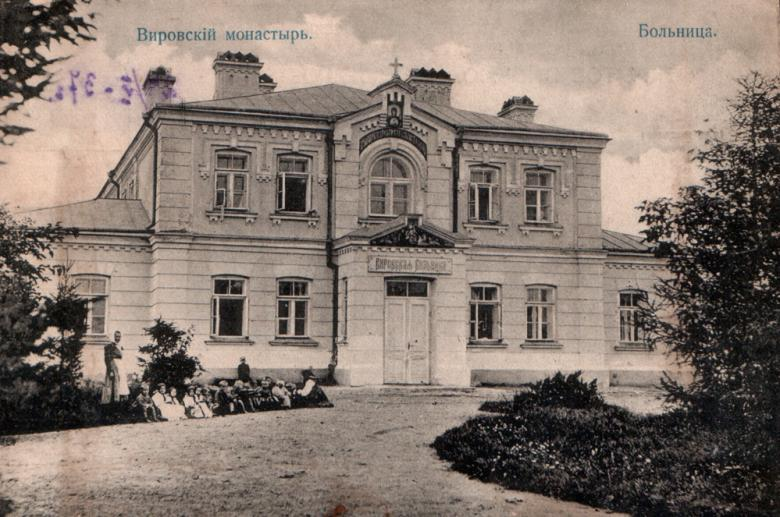 Hospital in the monastery of Christ the Saviour in Wirów. A postcard from Aleksander Sosna's collection.